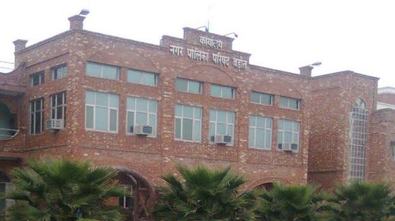 This is the office of the Baraut Municipal Corporation.